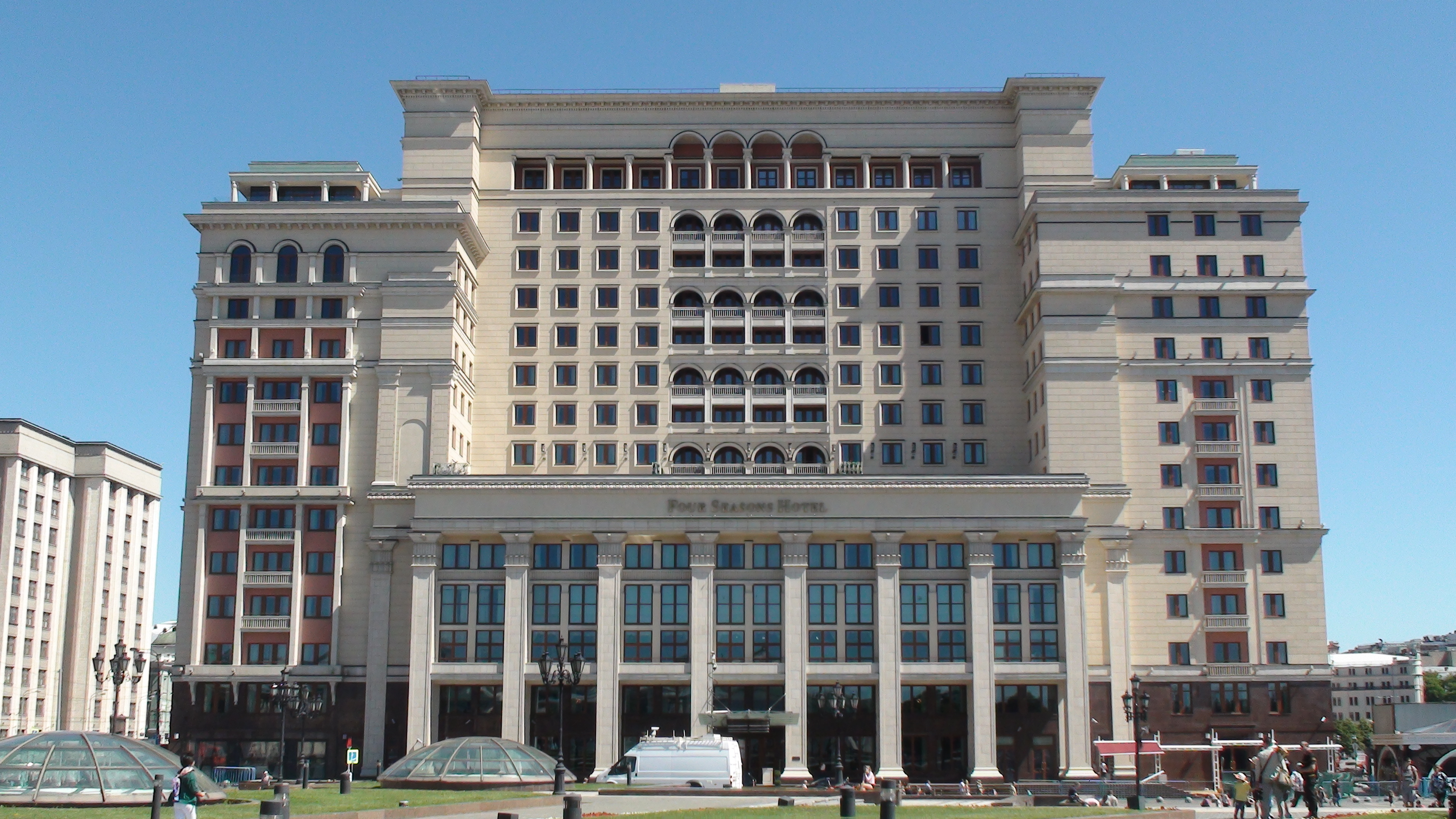 Гостиница Москва